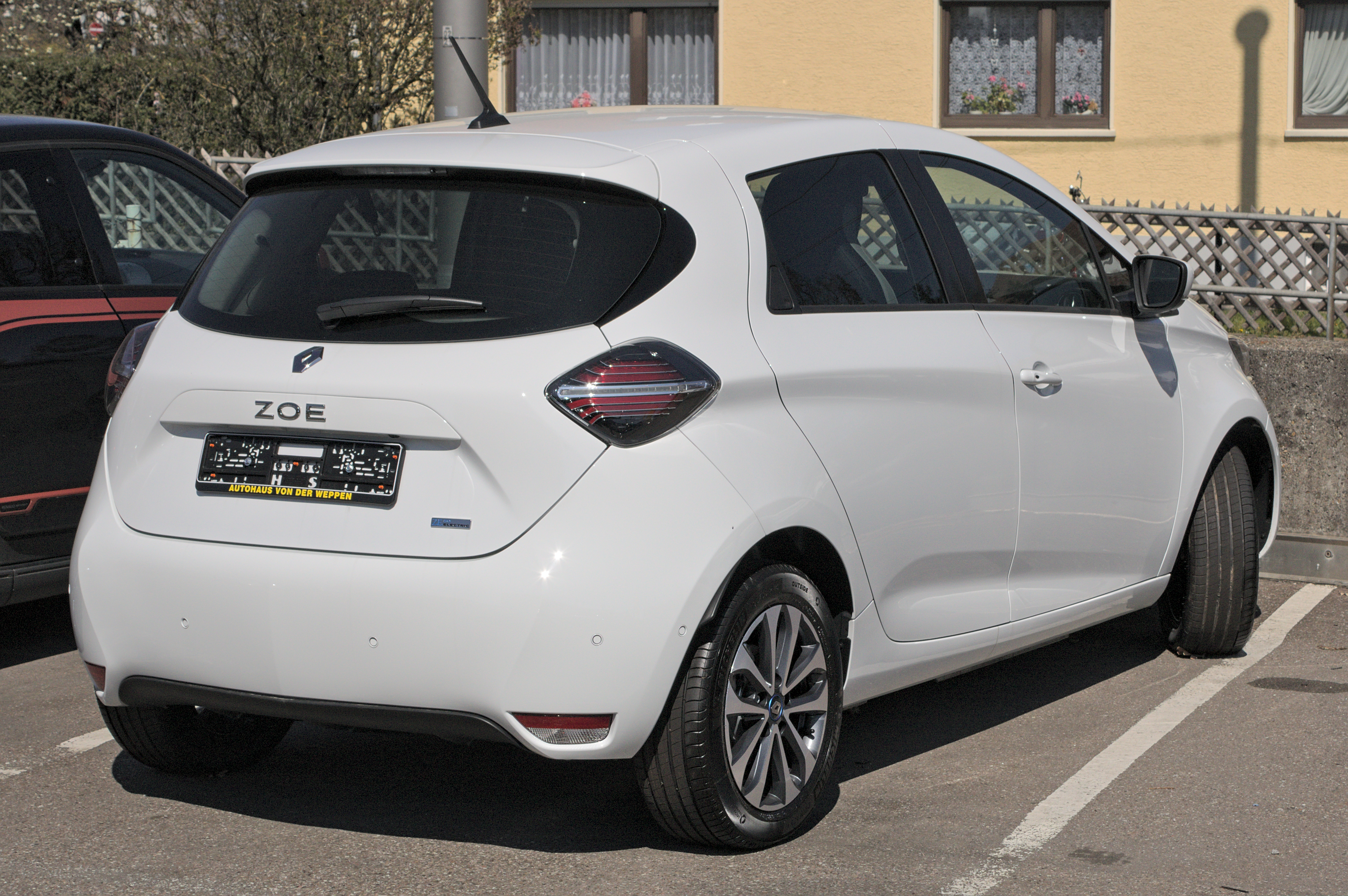 Renault_Zoe_(2019) in Stuttgart-Vaihingen